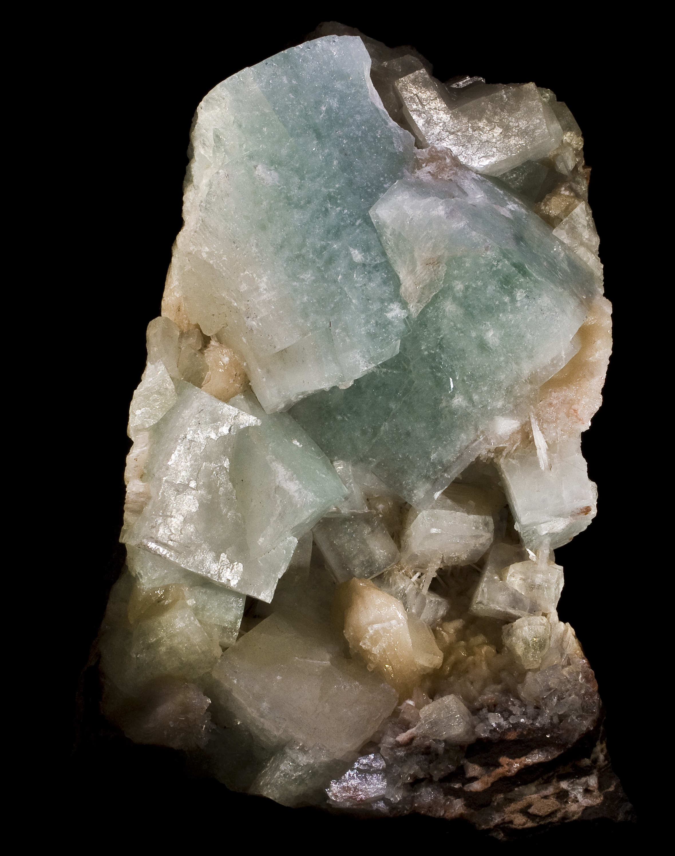 apophyllite - Caxias do Sul, Rio Grande do Sul, South Region, Brazil - (24x14cm)